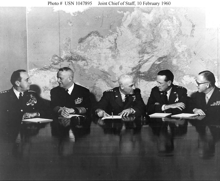 The Joint Chiefs of Staff on 10 February 1960. From left to right: General Lyman L. Lemnitzer, Chief of Staff, US Army; Admiral Arleigh Burke, Chief of Naval Operations, US Navy; General Nathan Twining, US Air Force, Chairman of the Joint Chiefs of Staff; General Thomas D. White, Chief of Staff, US Air Force; and General David M. Shoup, Commandant, US Marine Corps.